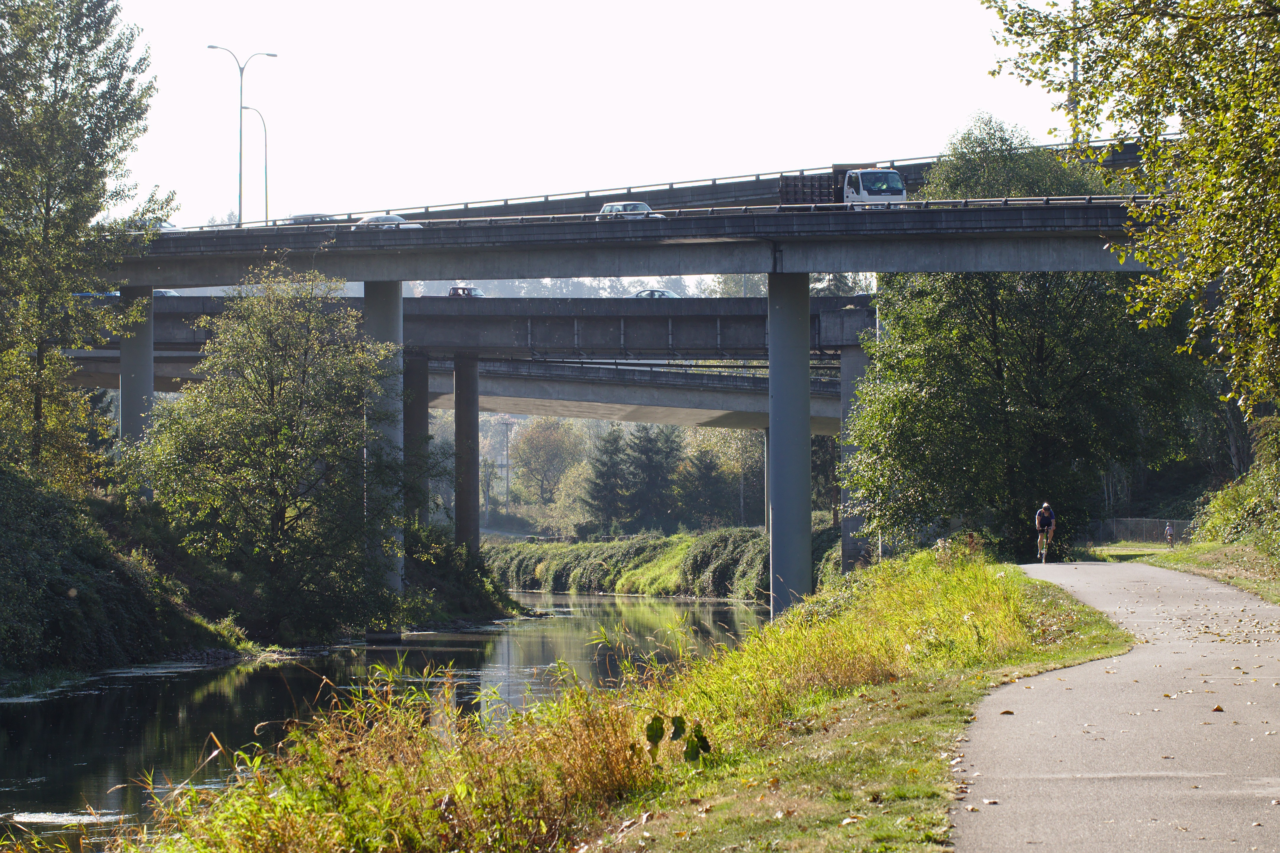 Sammammish River Trail looking west at the I-405 overpass